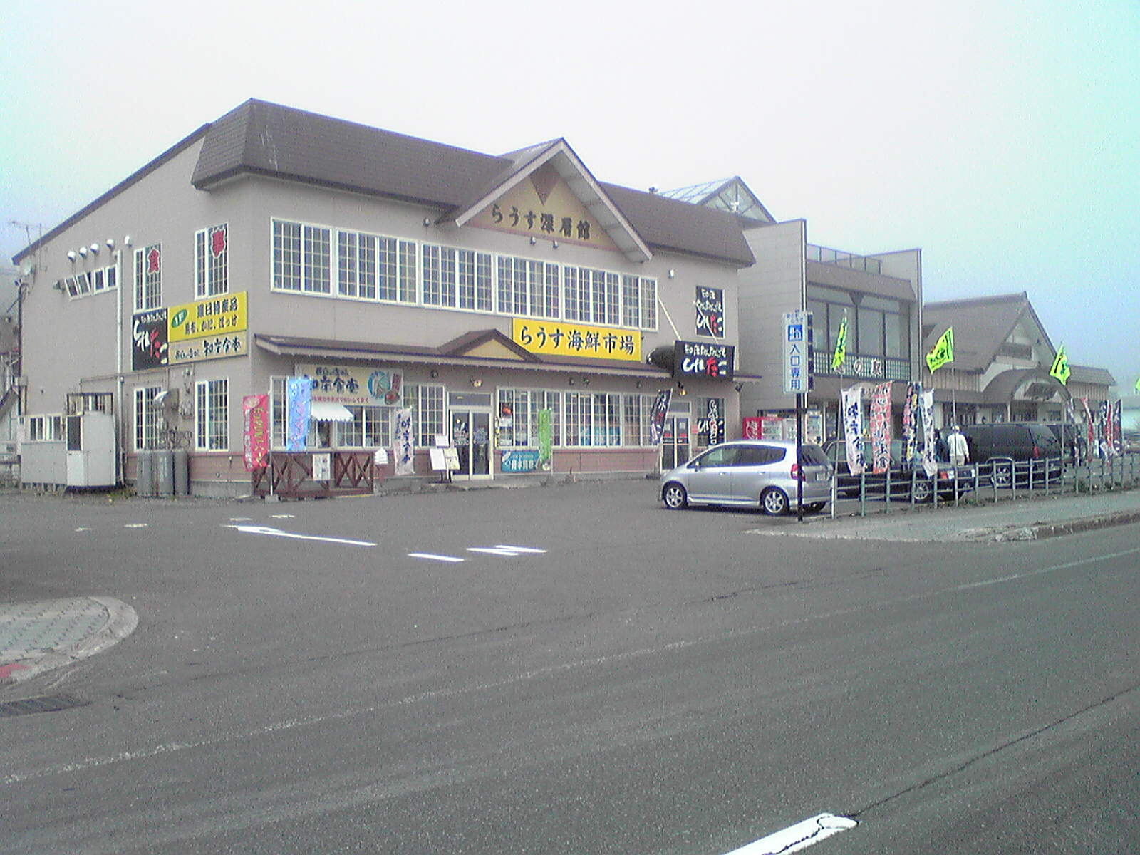 Shiretoko Rausu, Roadside Station, Hokkaido, Japan.